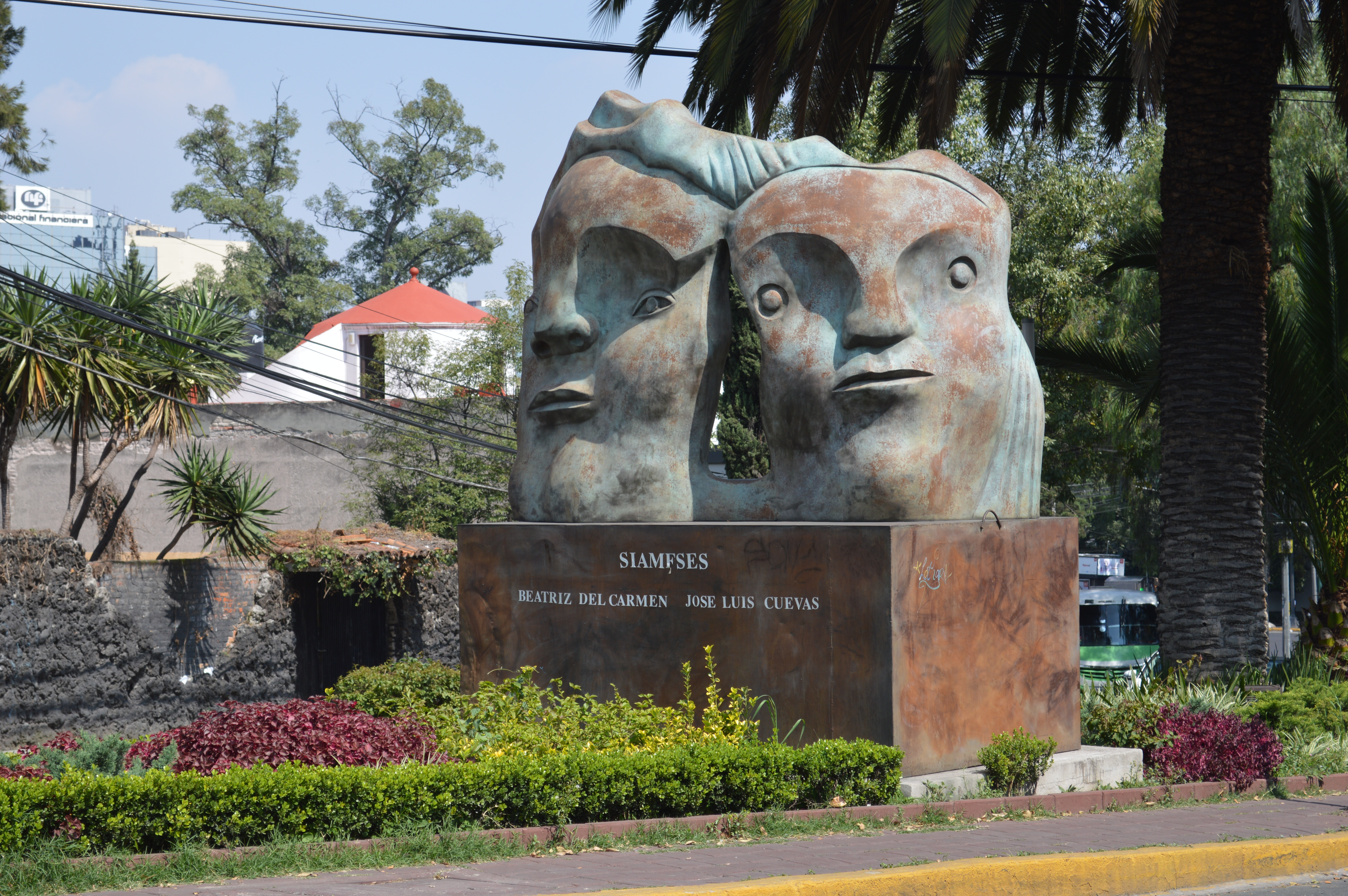 Sculpture called "Siamesas" by Jose Luis Cuevas on